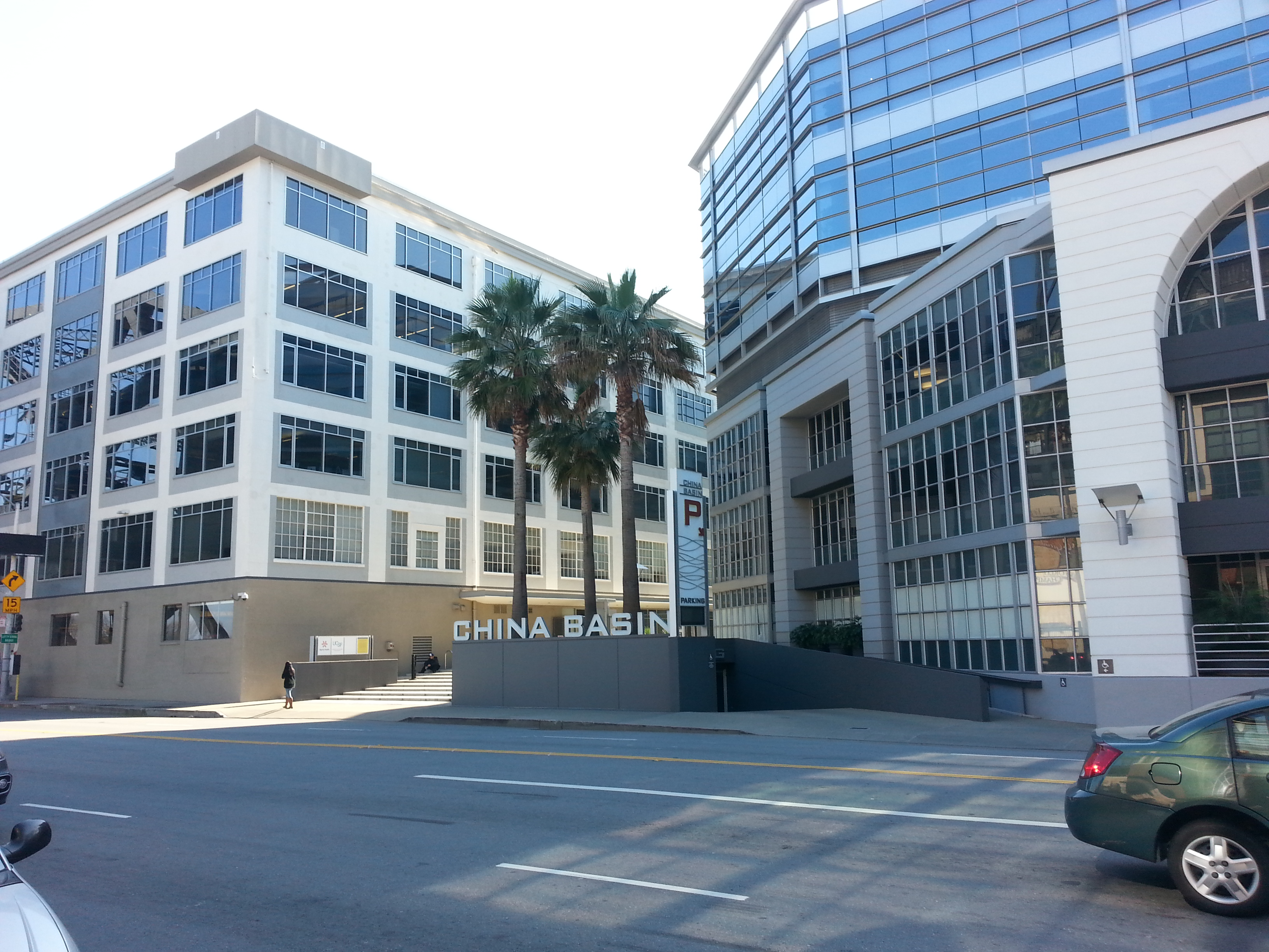 China Basin Landing exterior